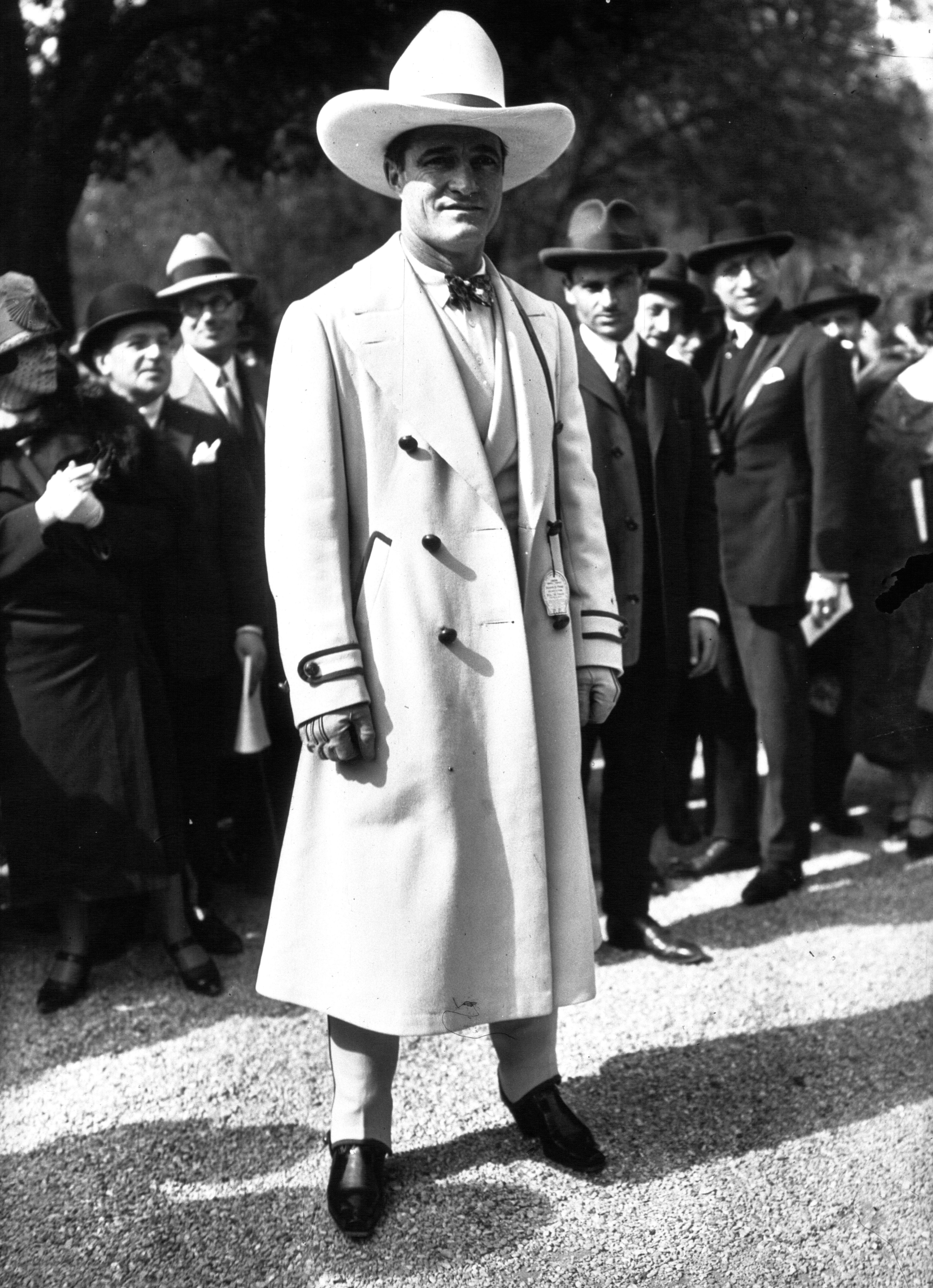 American actor Tom Mix (1880-1940) at the Longchamp Racecourse in Paris in 1925.